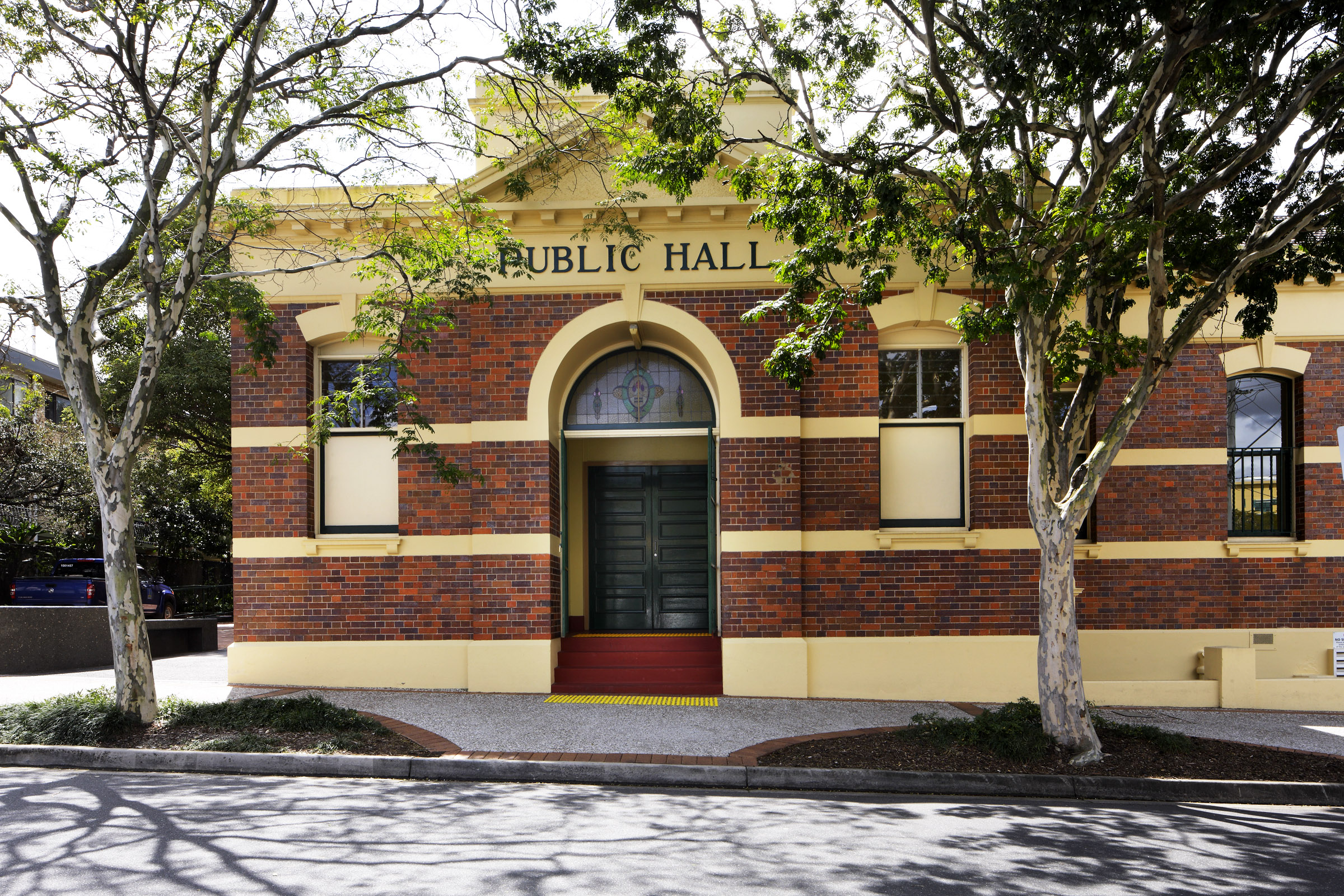 Entrance to Hamilton Town Hall from Rossiter Parade. Driveway to the left.